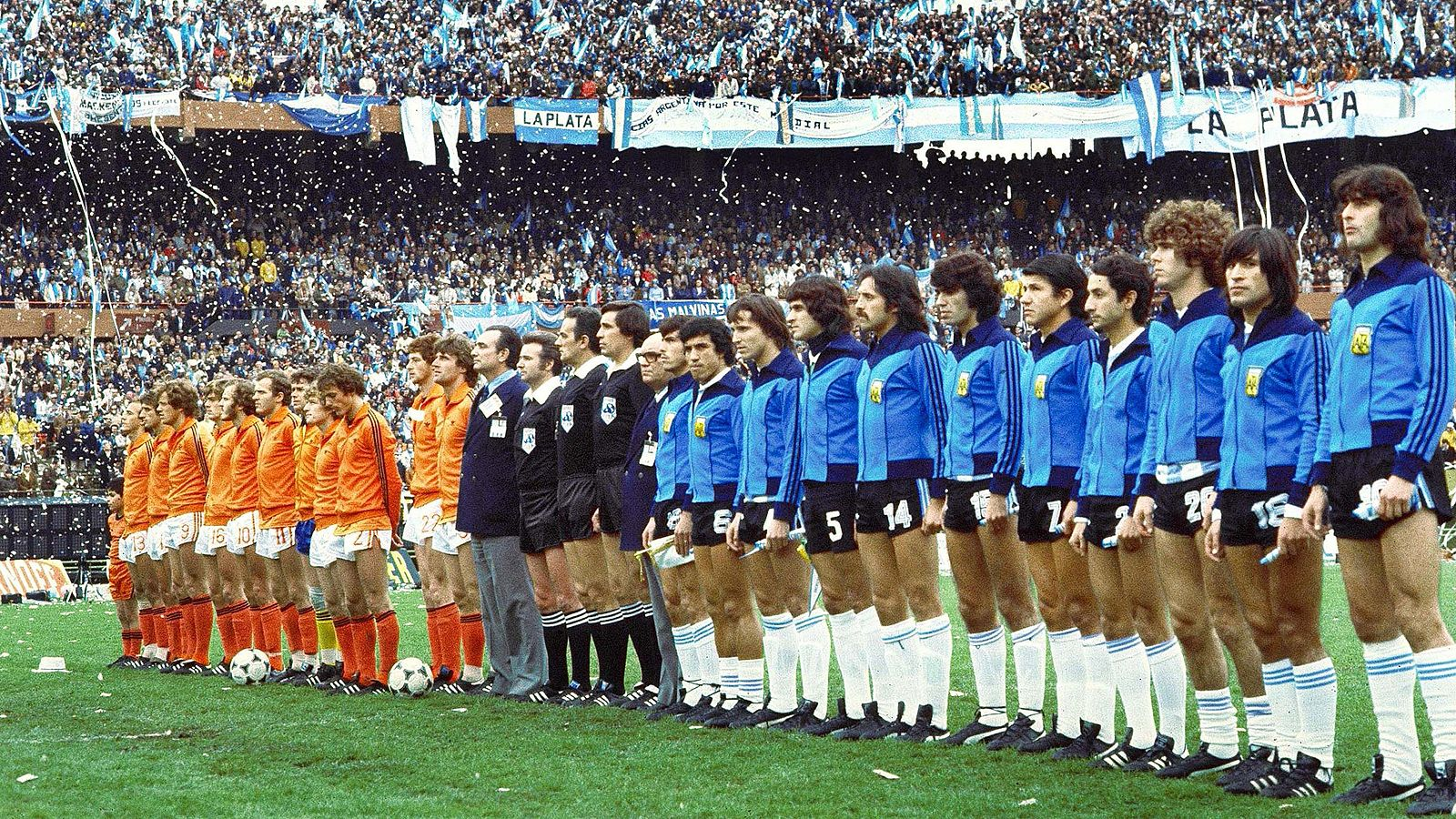 Argentina and Netherlands national teams line-ups before playing the 1978 FIFA World Cup final at River Plate.